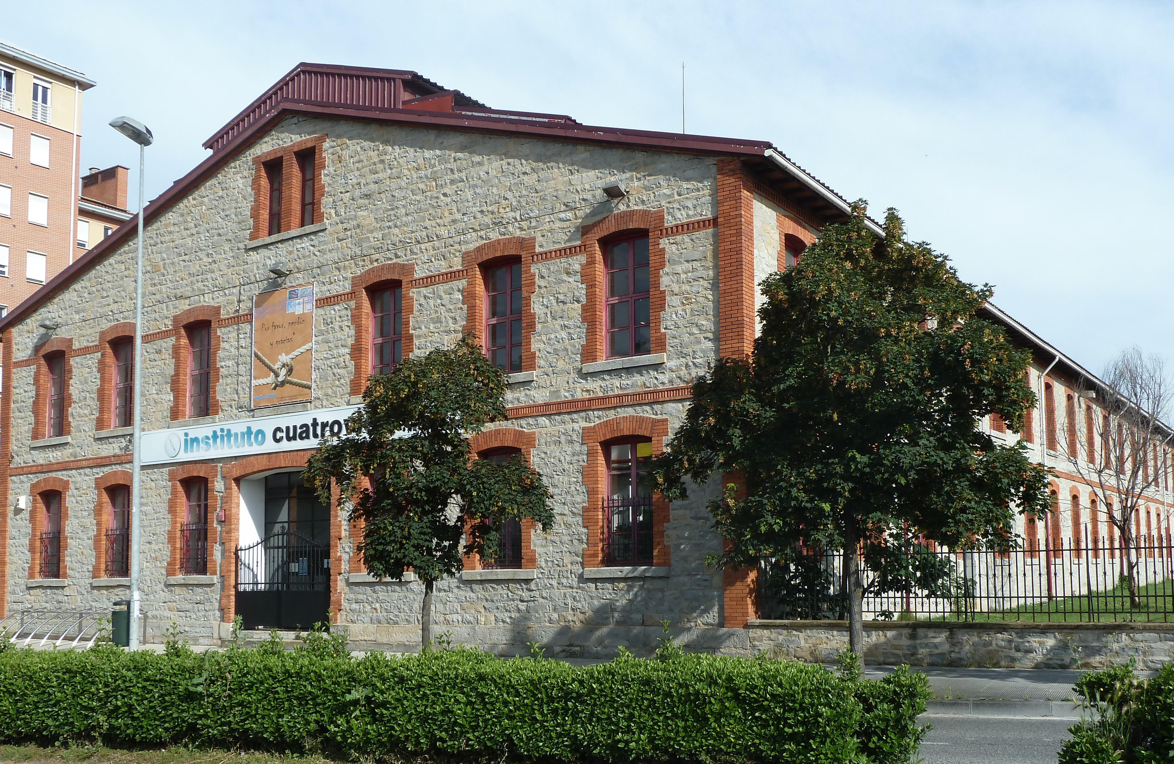 It was built in 1910 to house a shoe factory, however, since Sociedad Múgica, Arellano y Cía purchased it, in 1926, until 1974 was devoted to the manufacture of agricultural machinery. Currently houses a vocational training institute.